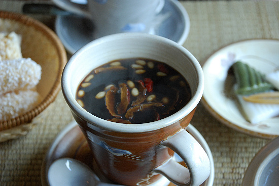 ssanghwacha / ssanghwatang: Korean herb tea or decoction